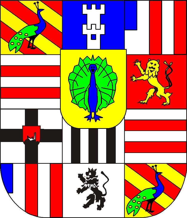 coats of arms of the principality of Wied; 1,12: county of Wied; 2: Runkel; 3,10: lordship of Runkel; 4,9: county of Nieder-Isenburg; 6: county of Sayn; 7: lordship of Neuerburg; 8 and 11: bourgraviat of Kirchberg; heart: principality of Wied